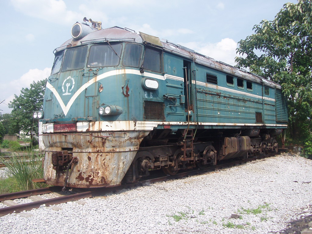 The DF 1846 diesel locomotive side of the photo